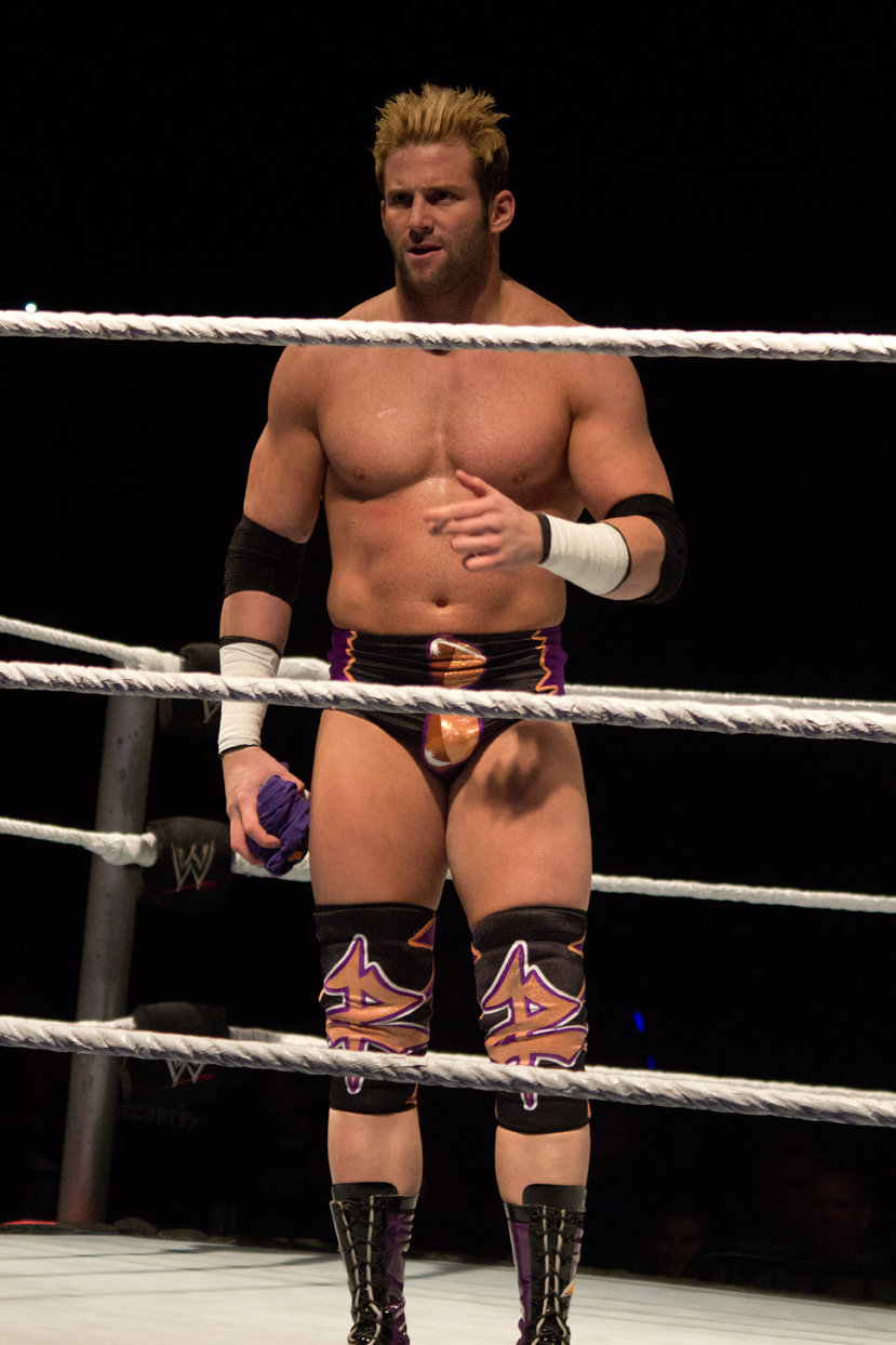 Zack Ryder during a WWE house show on February 2, 2013 in Montgomery, Alabama.